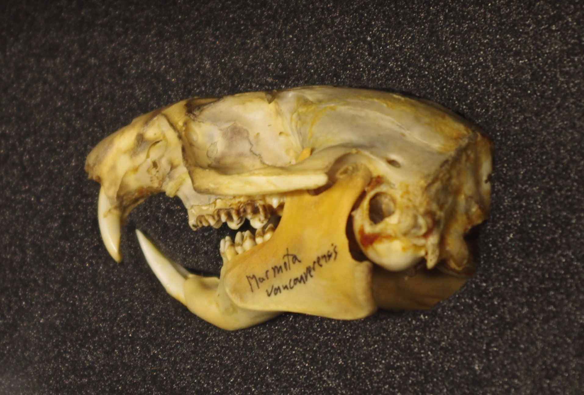 Marmota vancouverensis skull at the Beaty Biodiversity Museum